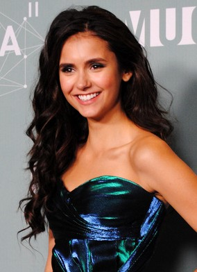 Nina Dobrev at the 2011 MuchMusic Video Awards